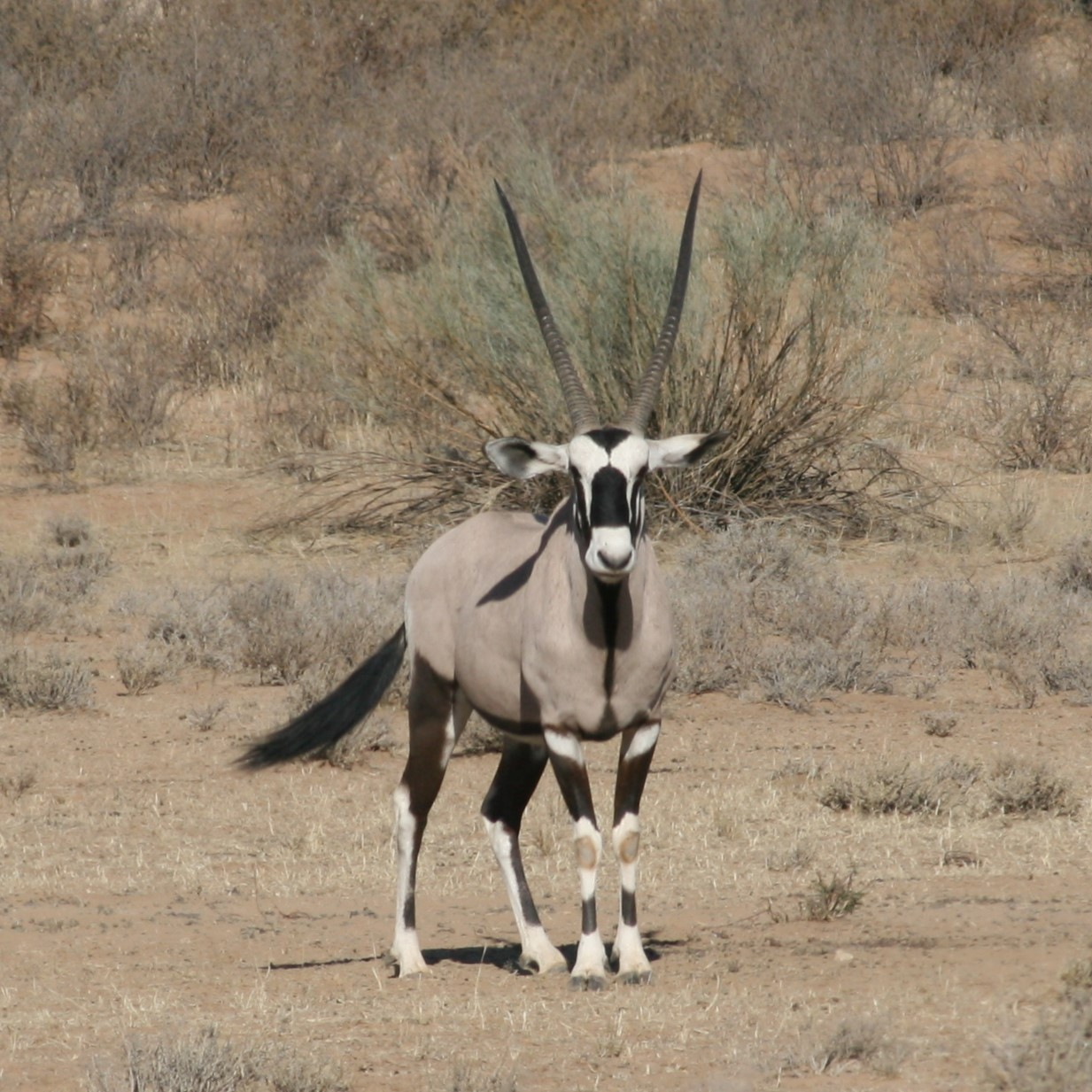 A gemsbok (Oryx gazella), Kgalagadi Transfrontier Park, South Africa